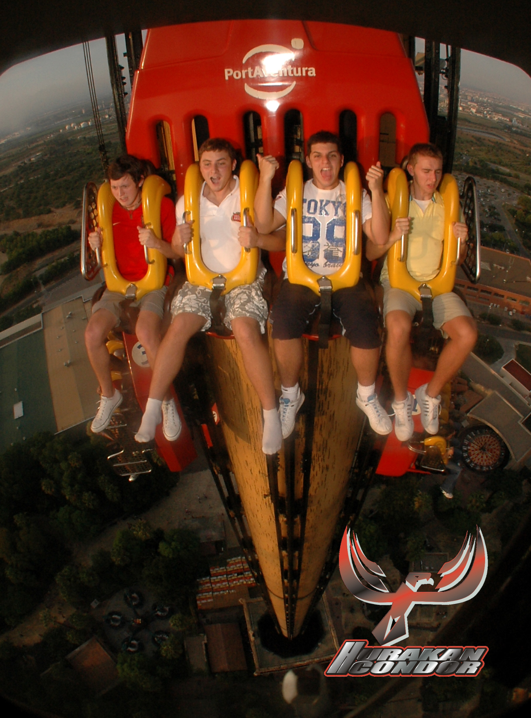 Hurakan Condor